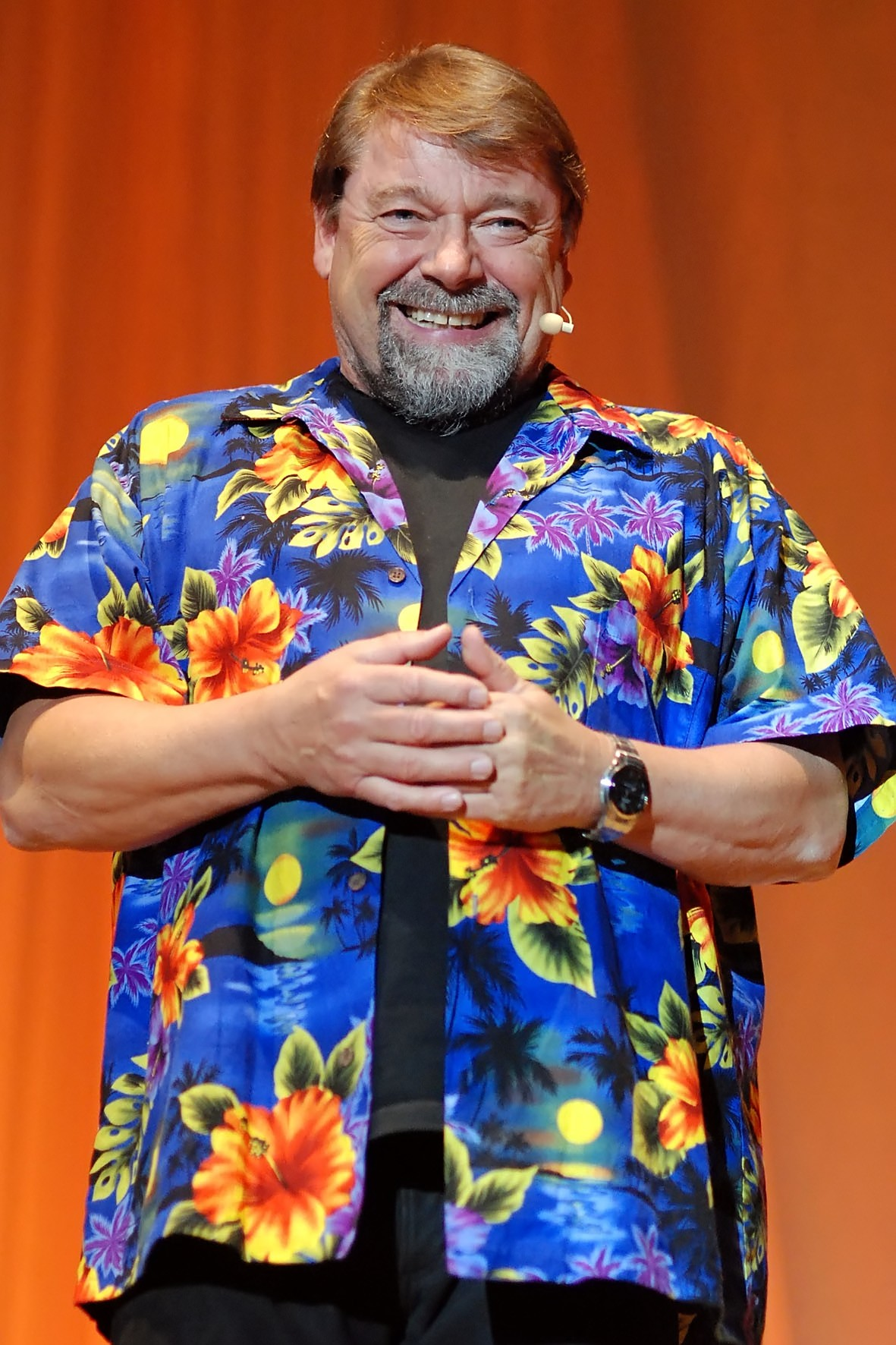 Juergen von der Lippe